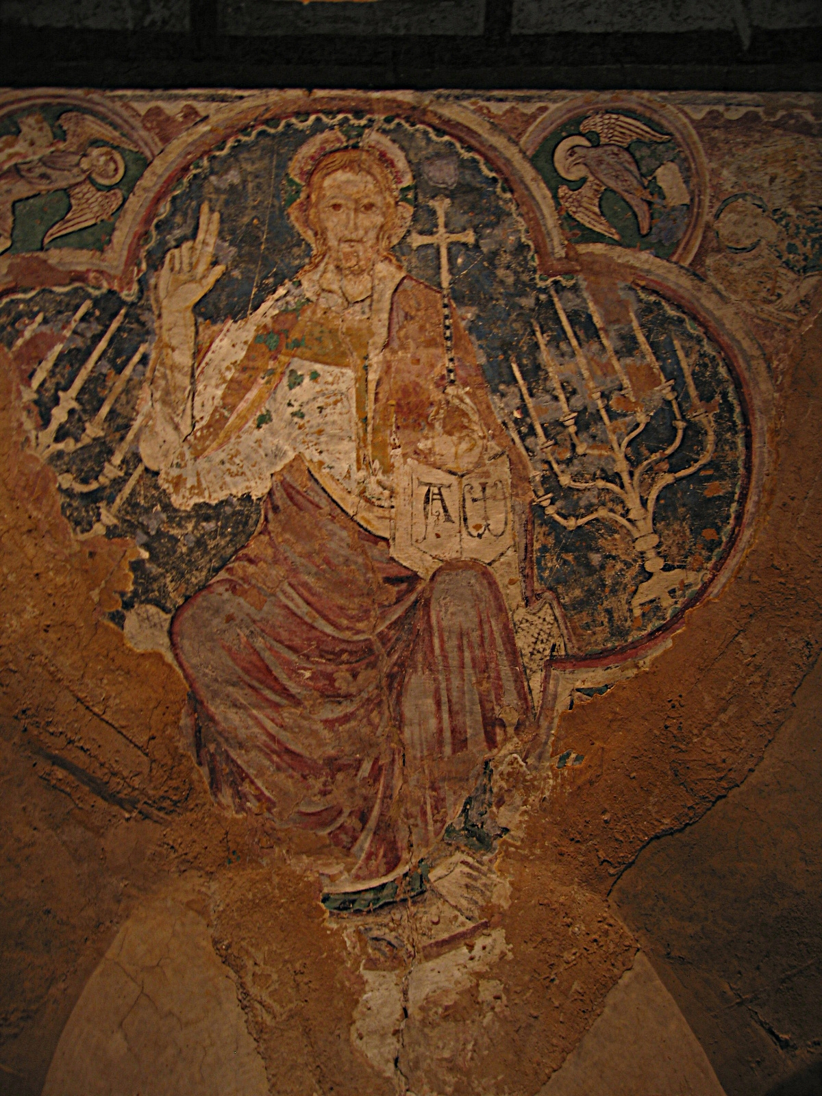 Painting of Christ inside the crypt of Saint-Etienne in Auxerre, France. XIIIth Century.